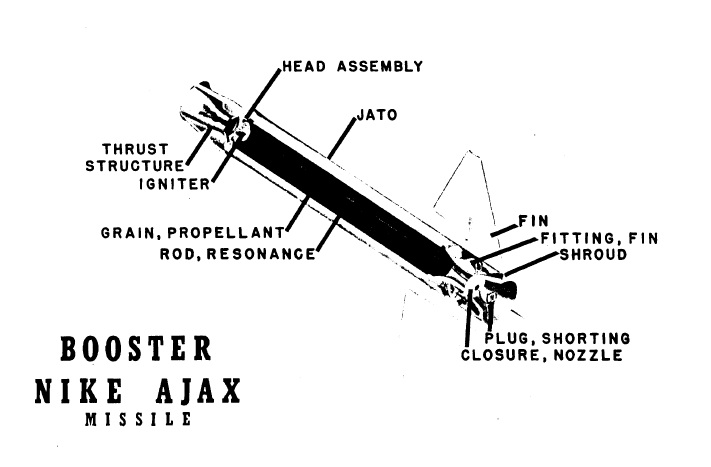 Early Booster Missile Nike I (three fin model), cut view